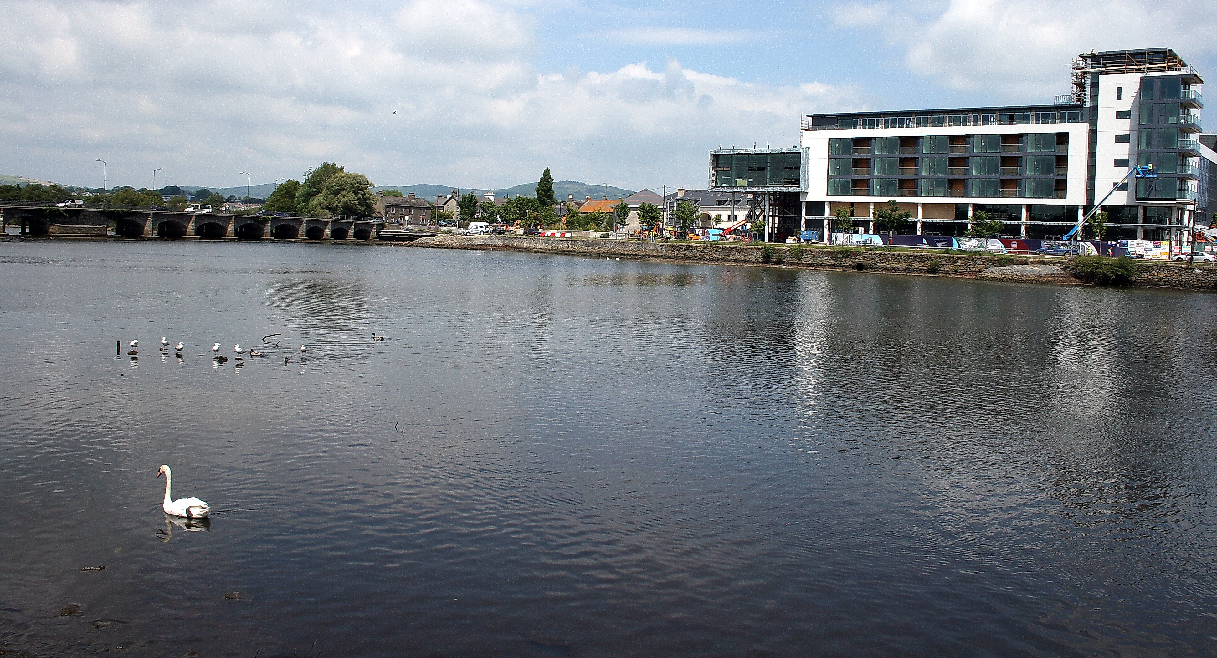 The northern shore of the Avoca estuary in Arklow, County Wicklow